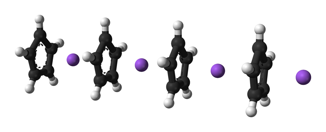 Ball-and-stick model of part of the crystal structure of sodium cyclopentadienide, NaCp, Na[C5H5]. X-ray crystallographic data from Organometallics, 1997, 16 (17), pp 3855–3858.